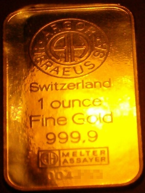 1 oz (Troy ounce) of fine gold - detail